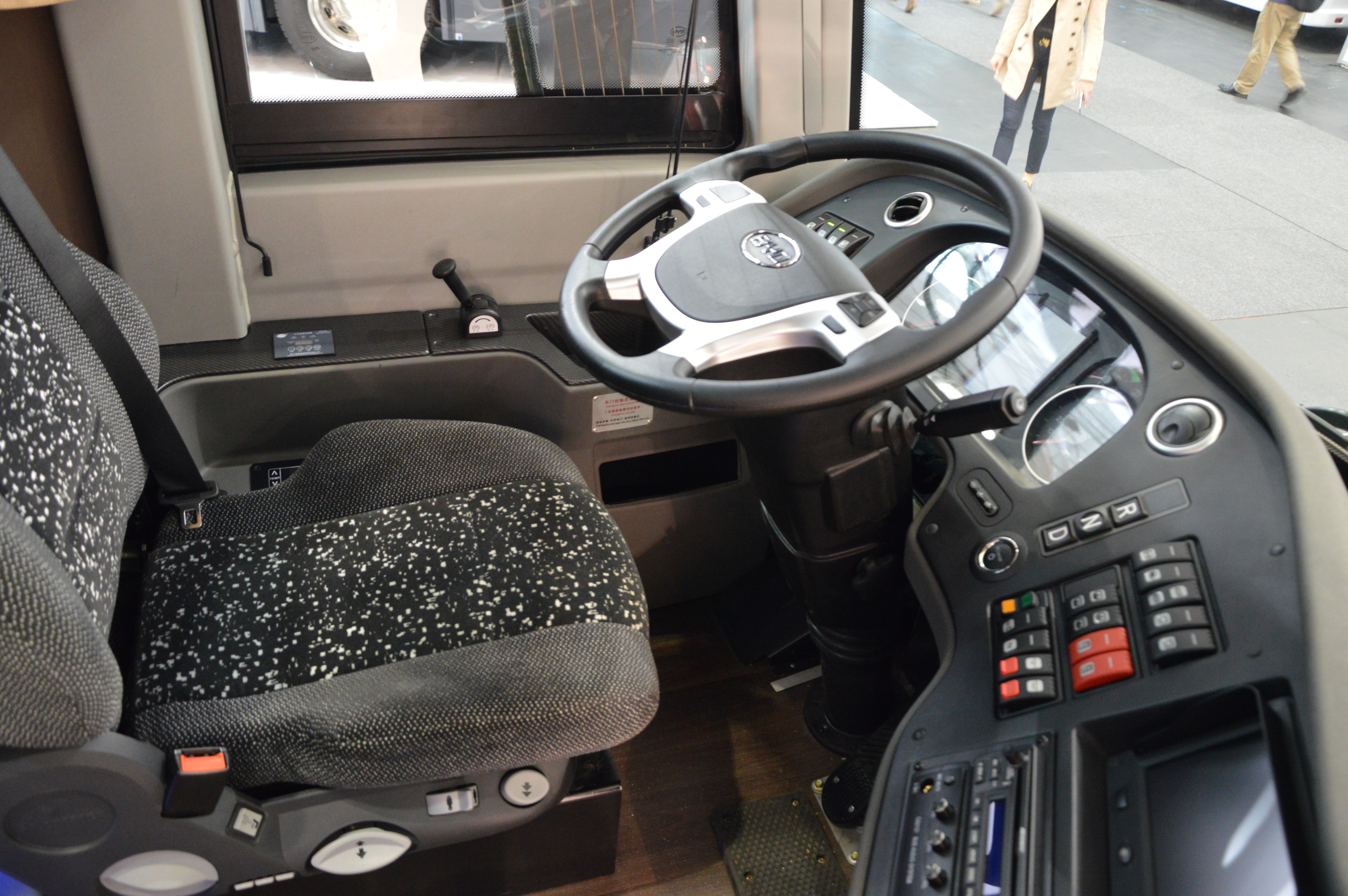 BYD C9 coach: The worldwide first long range battery-electric coach.